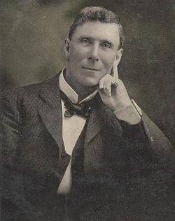 Joseph (Bland) Holt, Australian theatre entrepreneur and actor